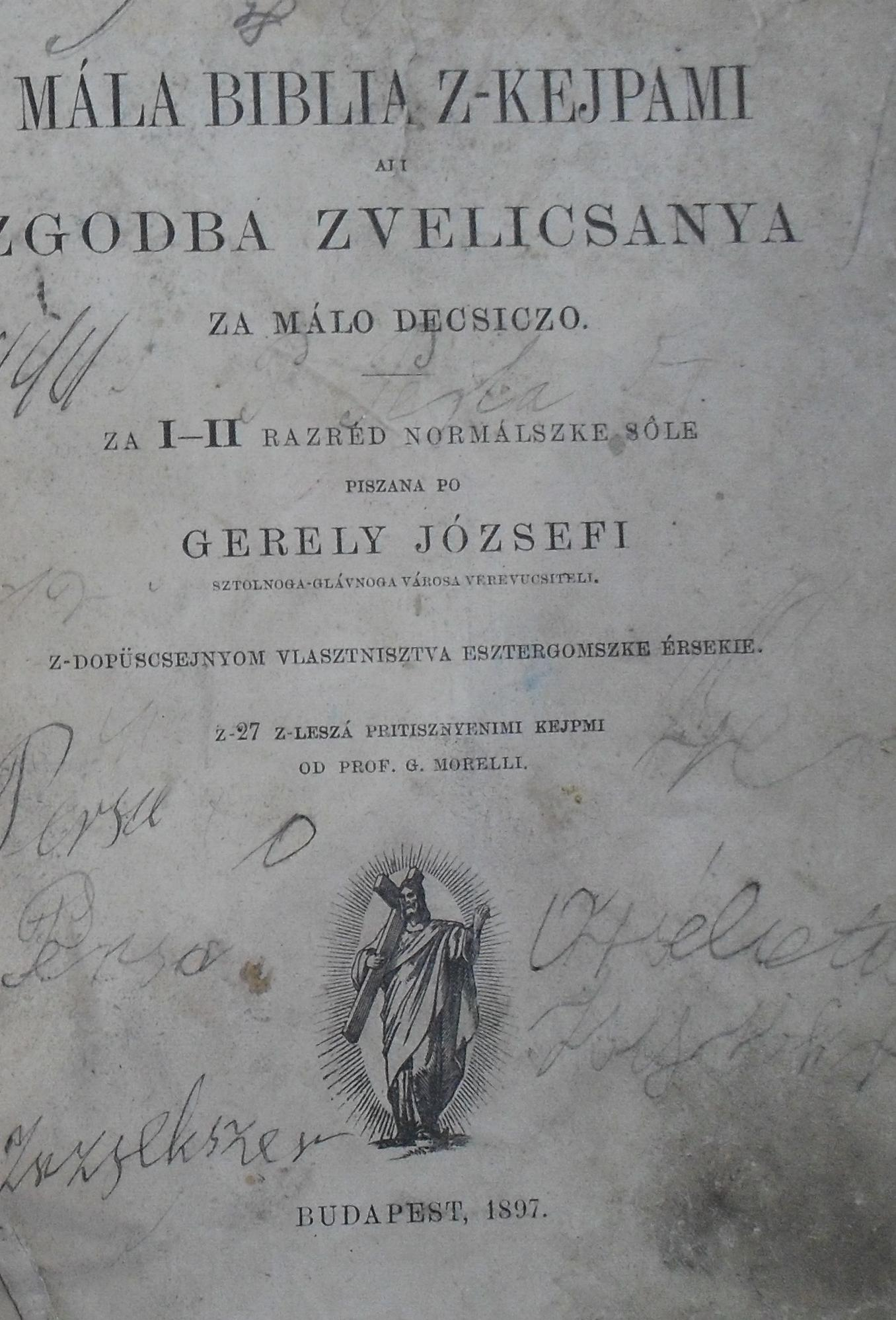 Mála biblia z-kejpami (Small Bible with pictures), short historys from the Old and New Testament in prekmurian language. Author: Péter Kollár. 1. issue, 1897